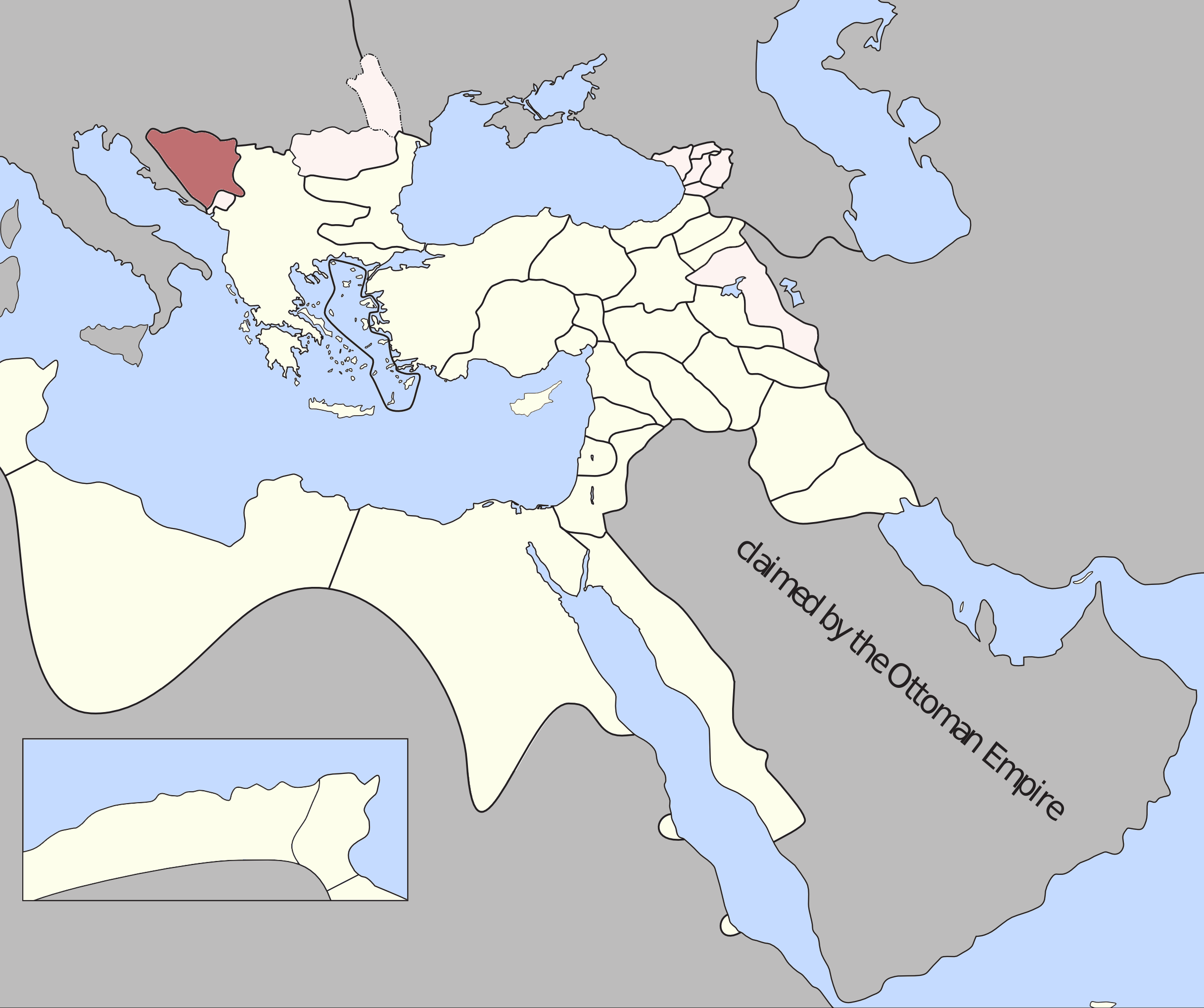 XY Eyalet, Ottoman Empire (1795). Source: A Brief History of the Late Ottoman Empire at Google Books By M. Sukru Hanioglu, Figure 1